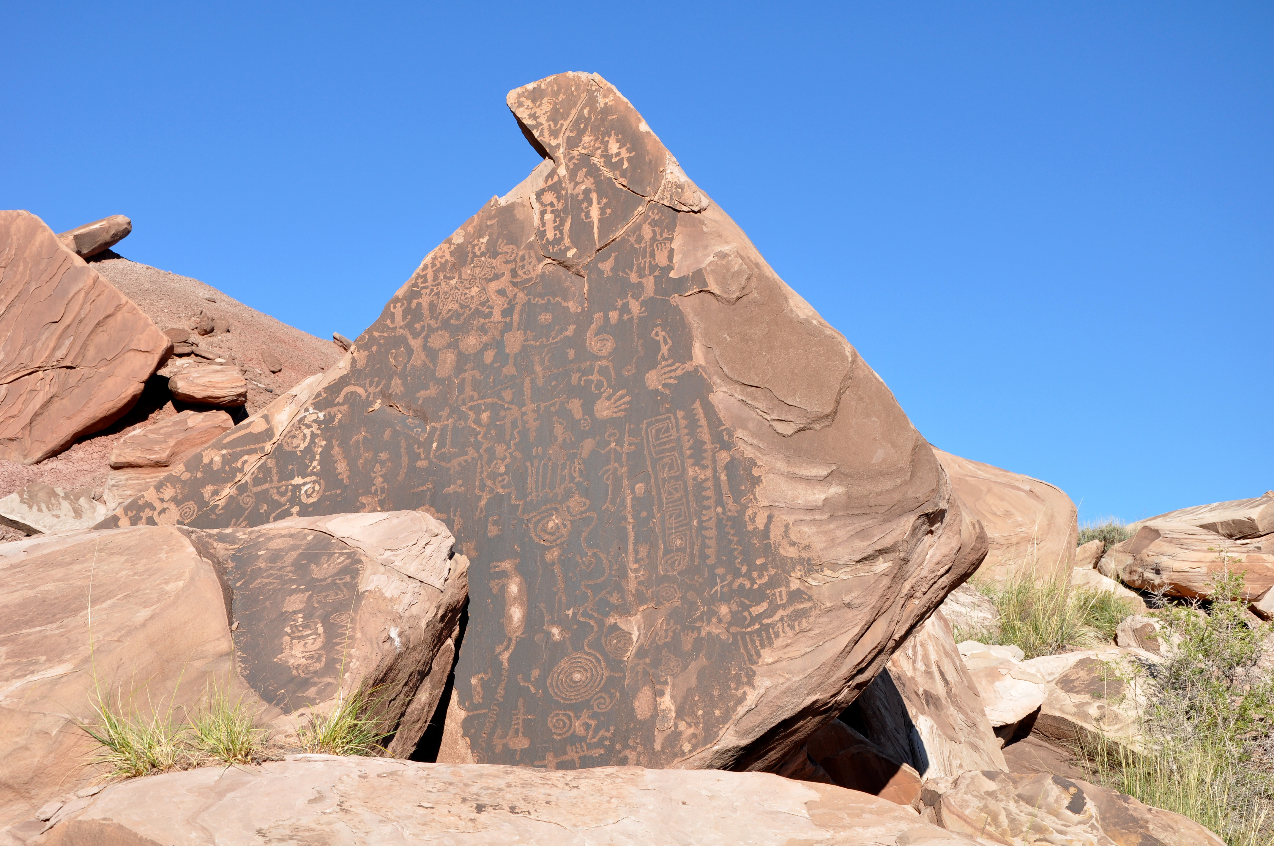 Petroglyphs in Petrified Forest National Park in northeastern Arizona, United States